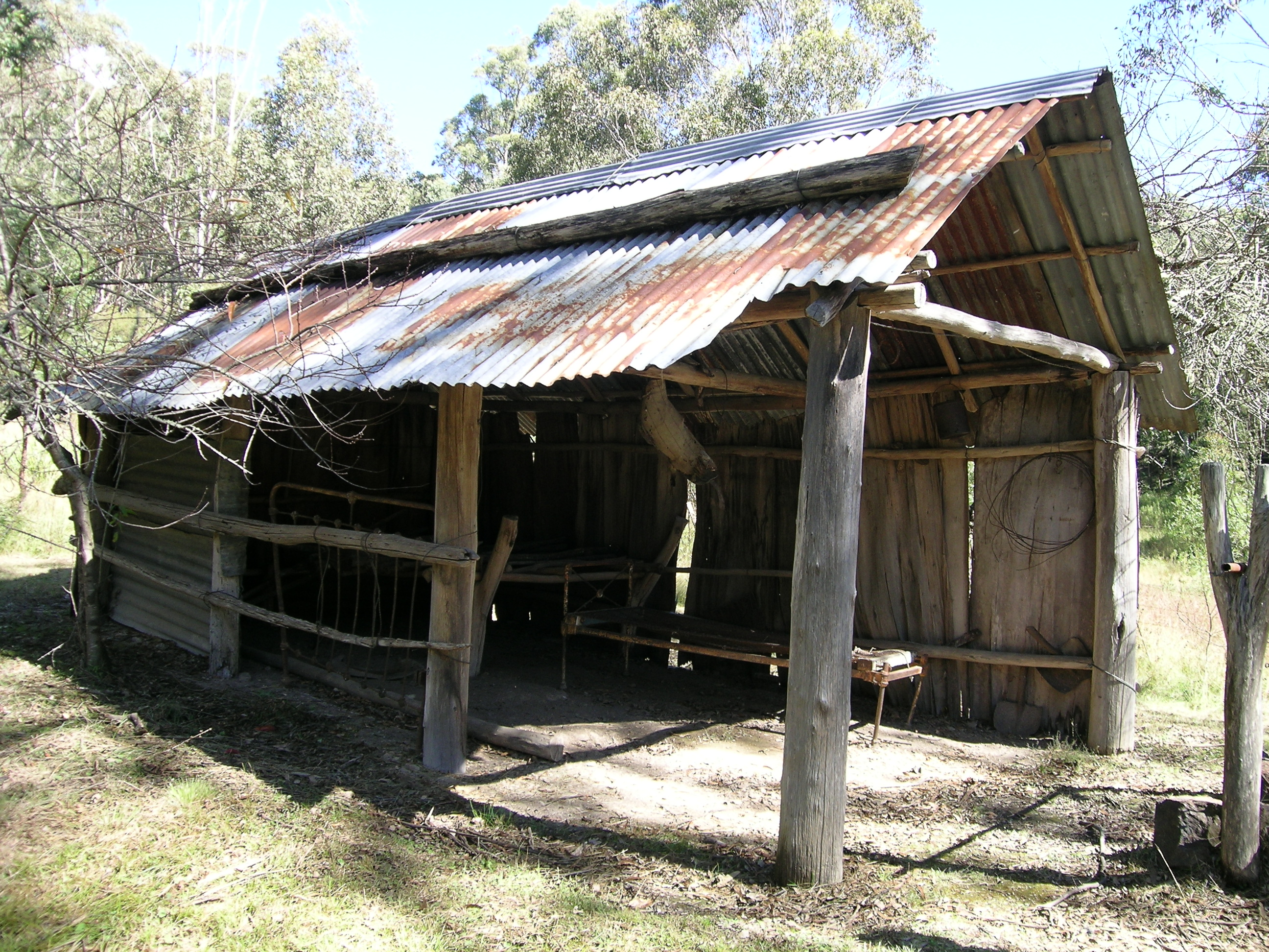 Bark Hut which was constructed by the Brennan family, for use during mustering trips to The Lease, OWRNP, Walcha. This hut has been restored by the NPWS.